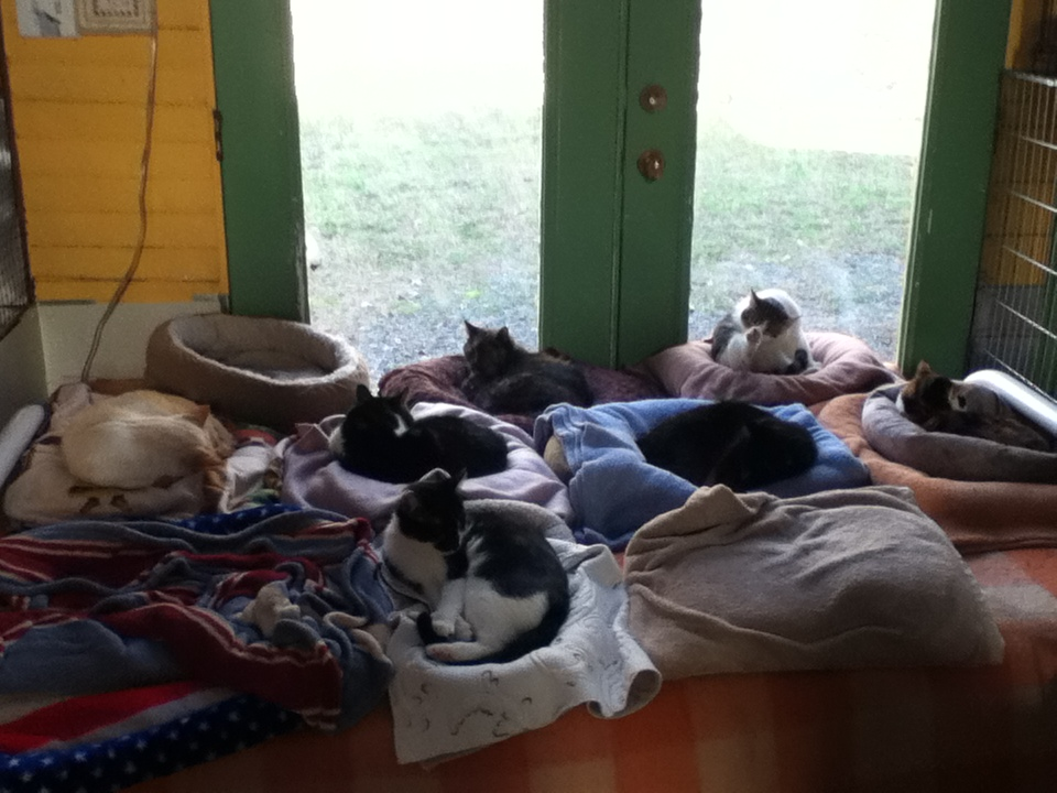 shelter cats